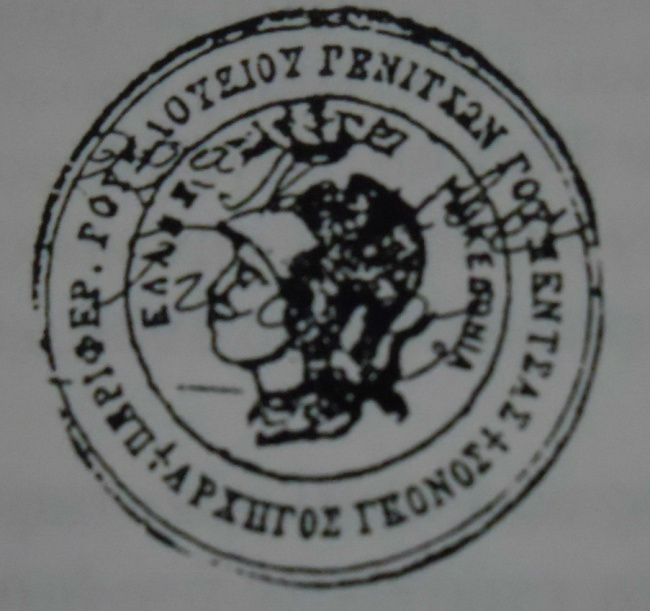 Gono Yotov seal